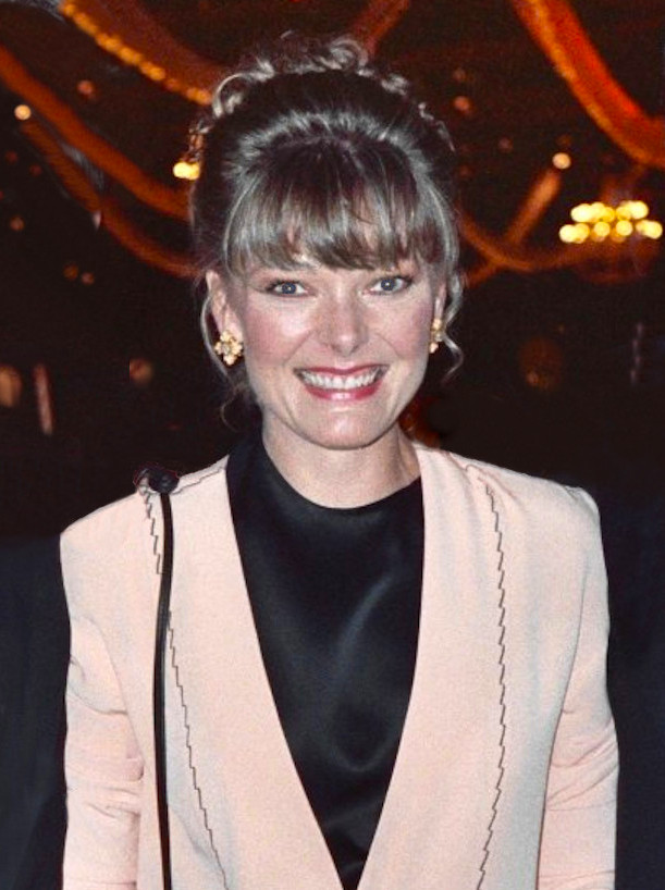 Photo taken at the 41st Emmy Awards 9/17/89 - Permission granted to copy, publish or post but please credit "photo by Alan Light" if you can